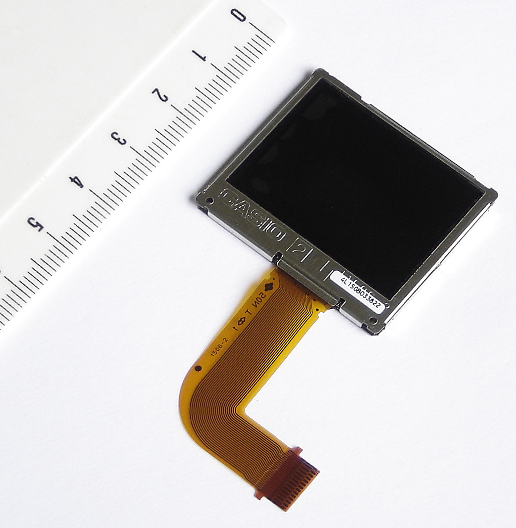 A Casio 1.8" colour TFT liquid crystal display which equips the Sony Cyber-shot DSC-P93A digital compact cameras. The scale in the picture is in cm.